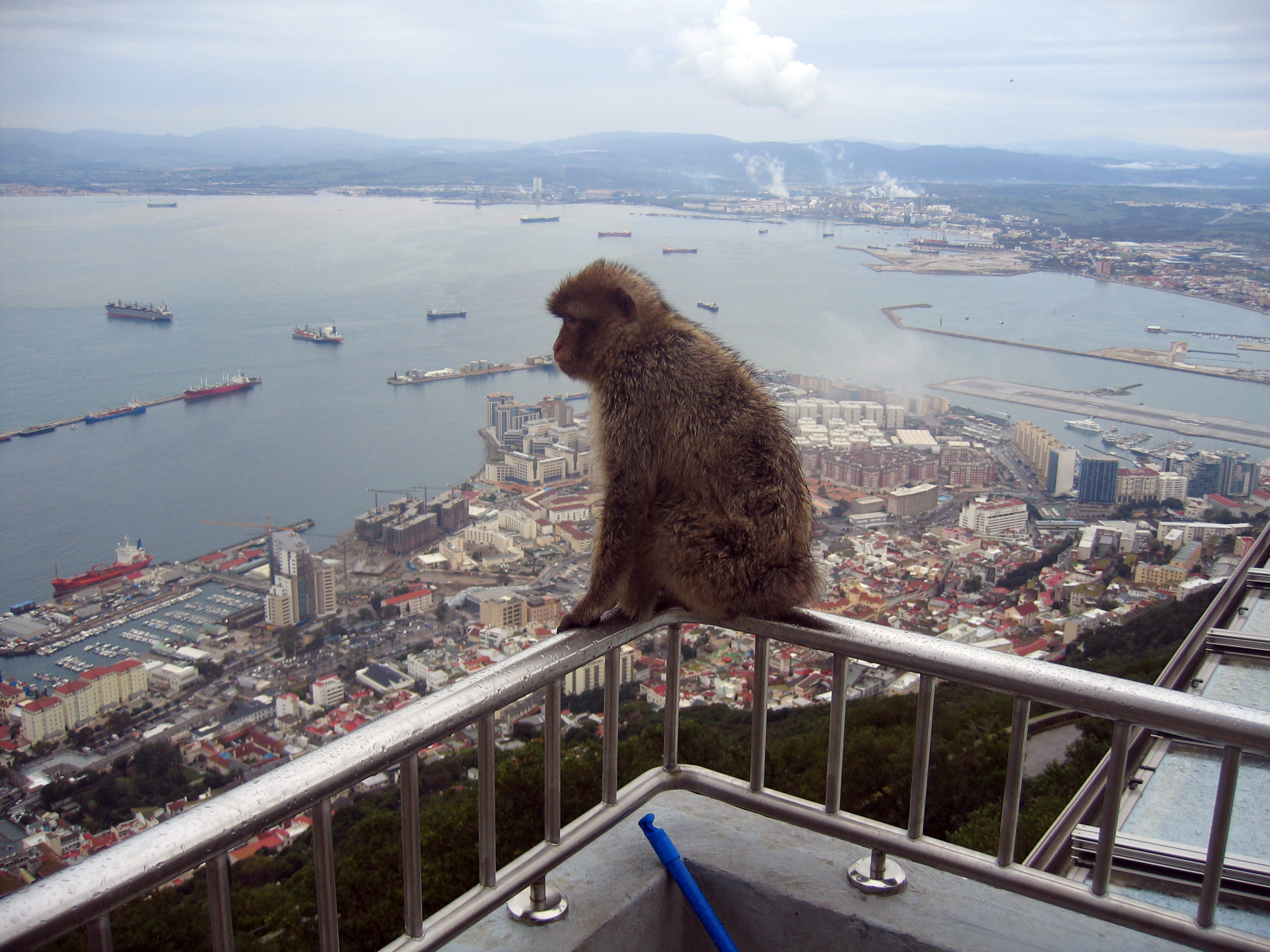 Gibraltar Barbary Macaques